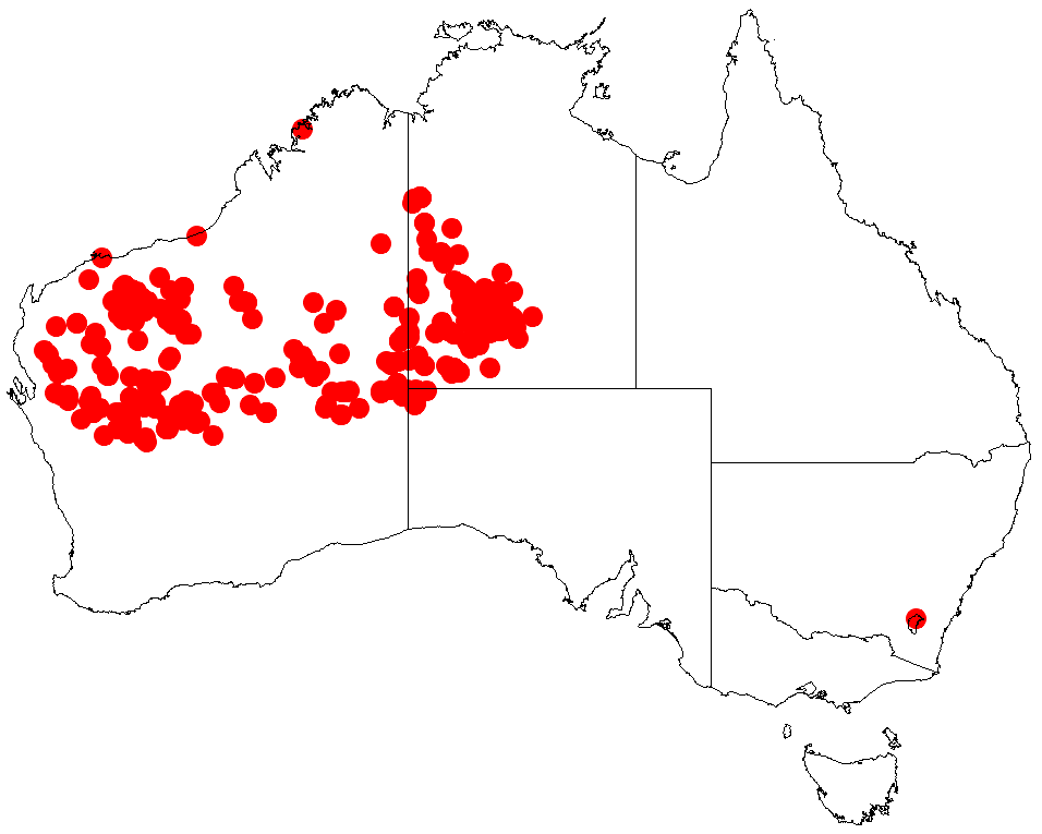 Acacia pruinocarpa occurrence data from Australasian Virtual Herbarium downloaded from on 8 December 2018